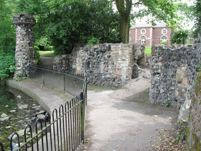 Photograph of a folly known as the Grotto in Victoria Park, St Helens, Merseyside